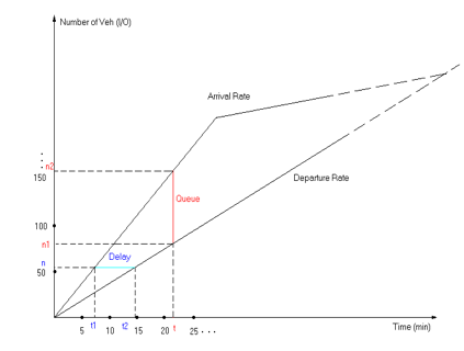 A "Newell Curve" or Queueing Cumulative Input/Output Diagram